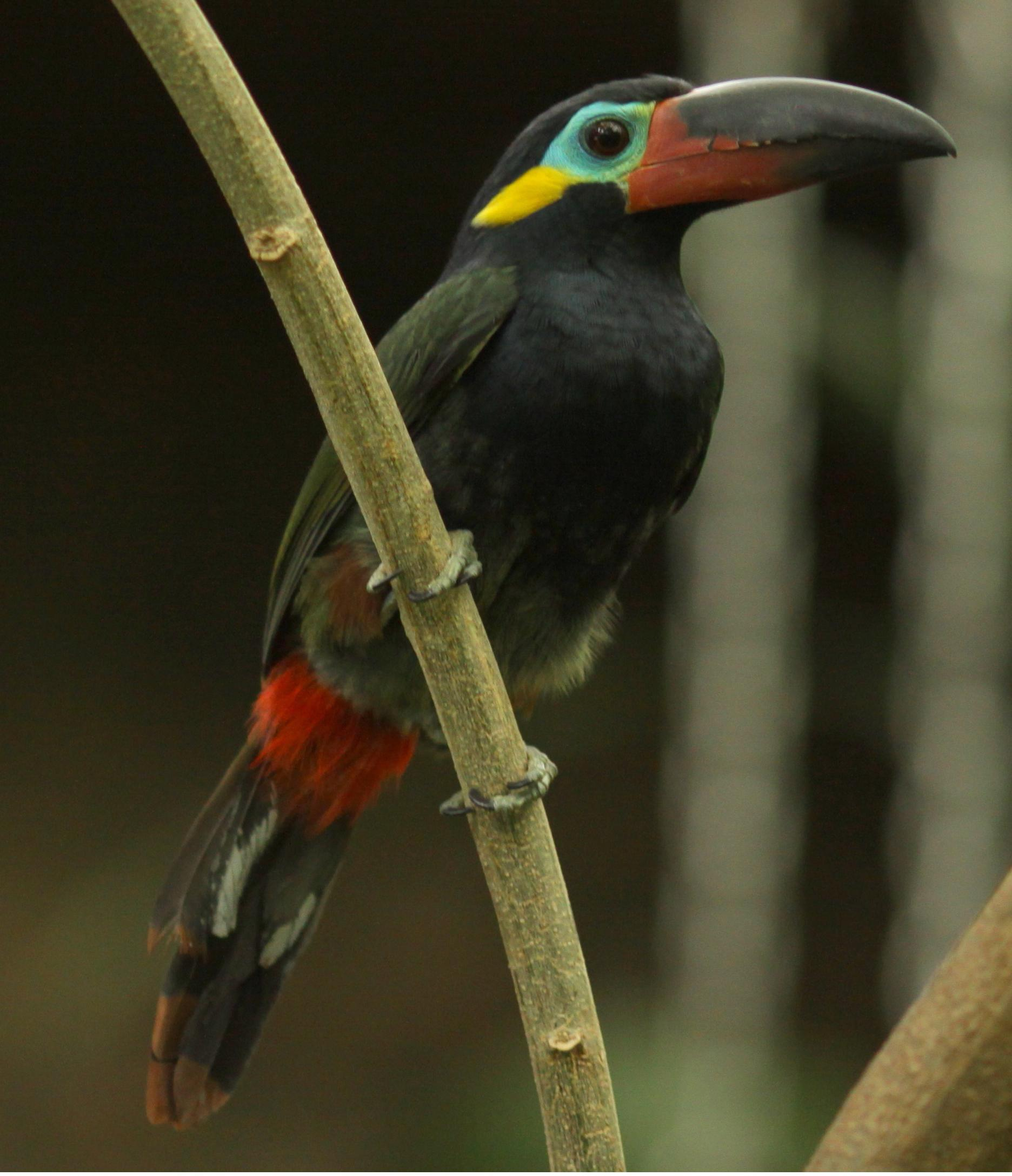 A male Guianan Toucanet at Dallas World Aquarium, USA.